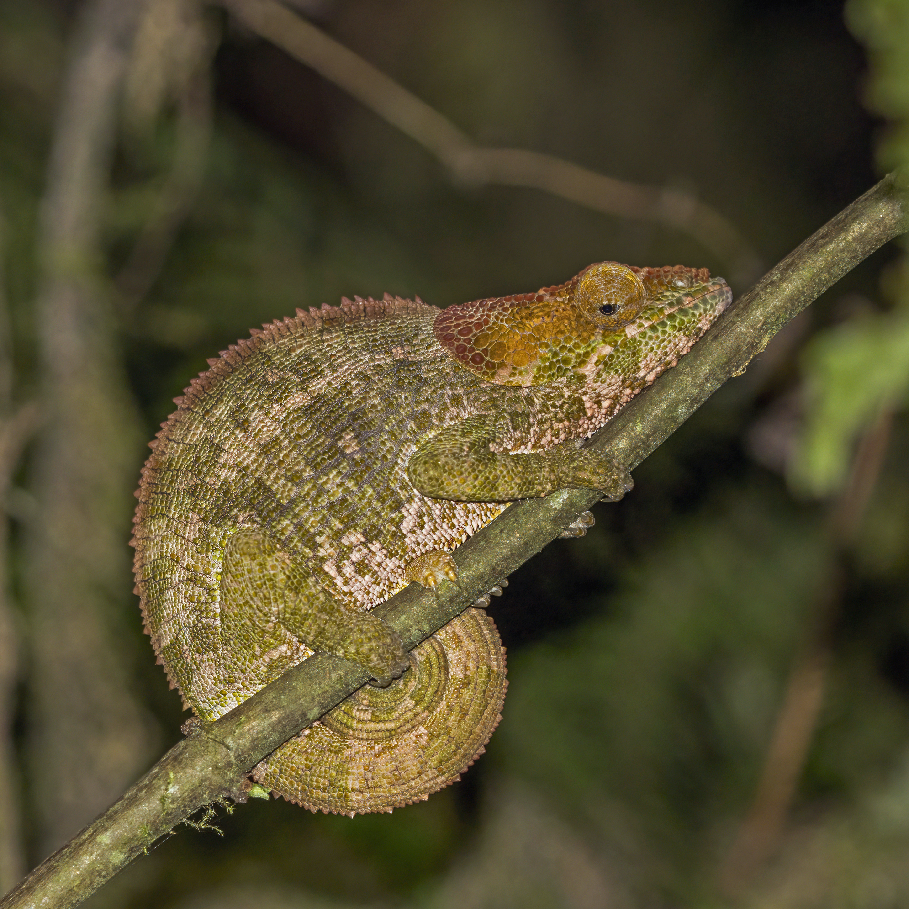 Blue-legged chameleon (Calumma crypticum) female, Ranomafana National Park, Madagascar